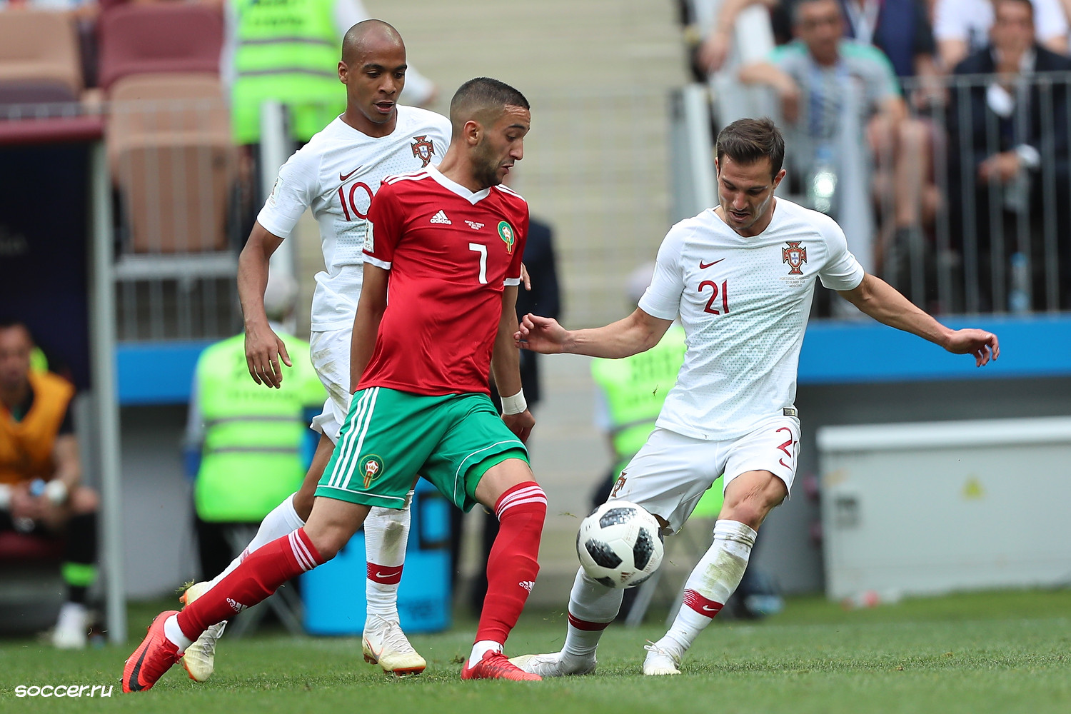 Portugal-Morocco match, 2018 FIFA World Cup